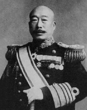 Nawa Matahachirou is an Imperial Japanese Navy Full Admiral